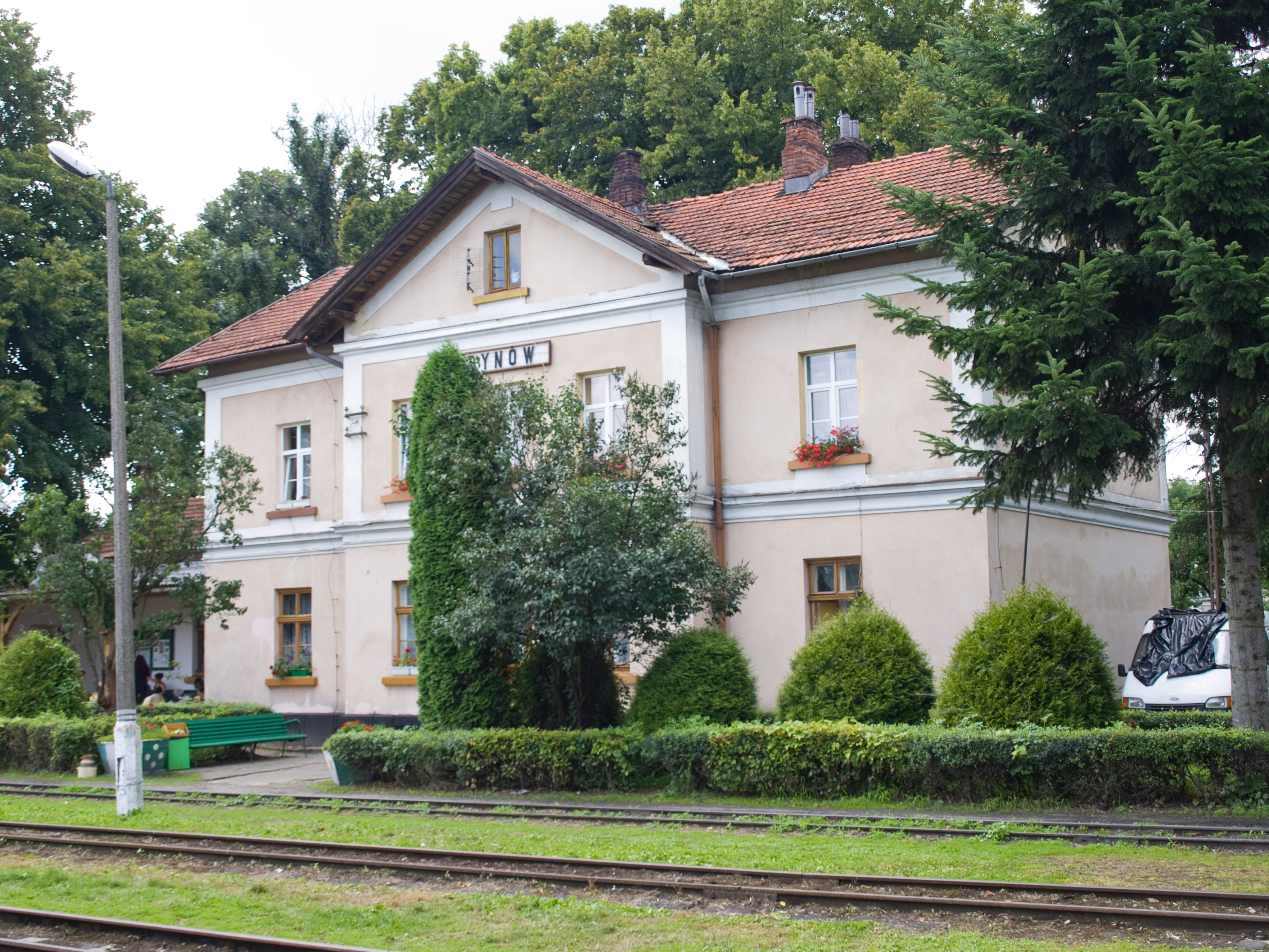 Train station, Dynów, Subcarpathian Voivodeship